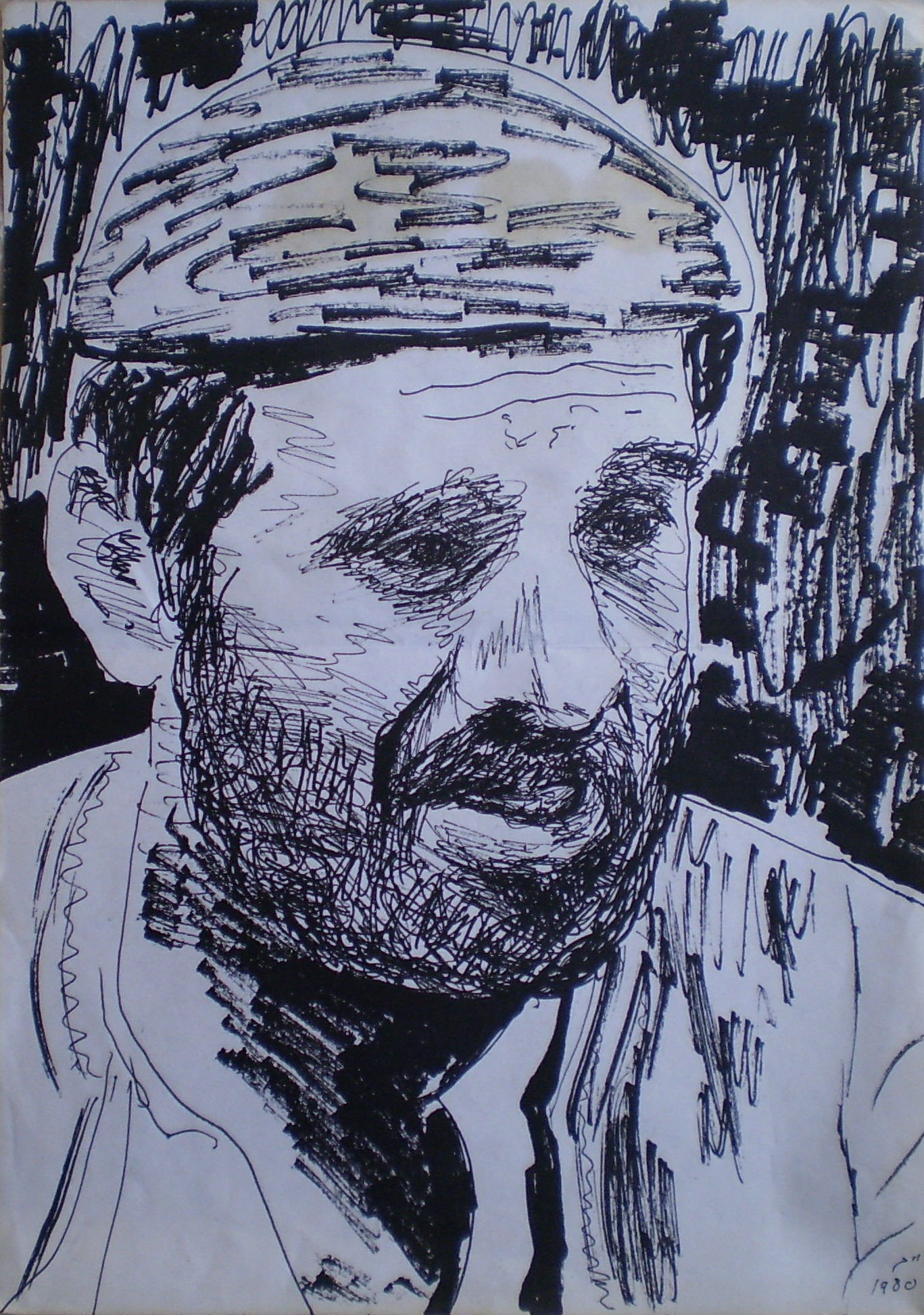 Chaim Topol as Sallah Shabati, self portrait. Donated To Commons under cc-by-sa license in honor of Jordan River Village